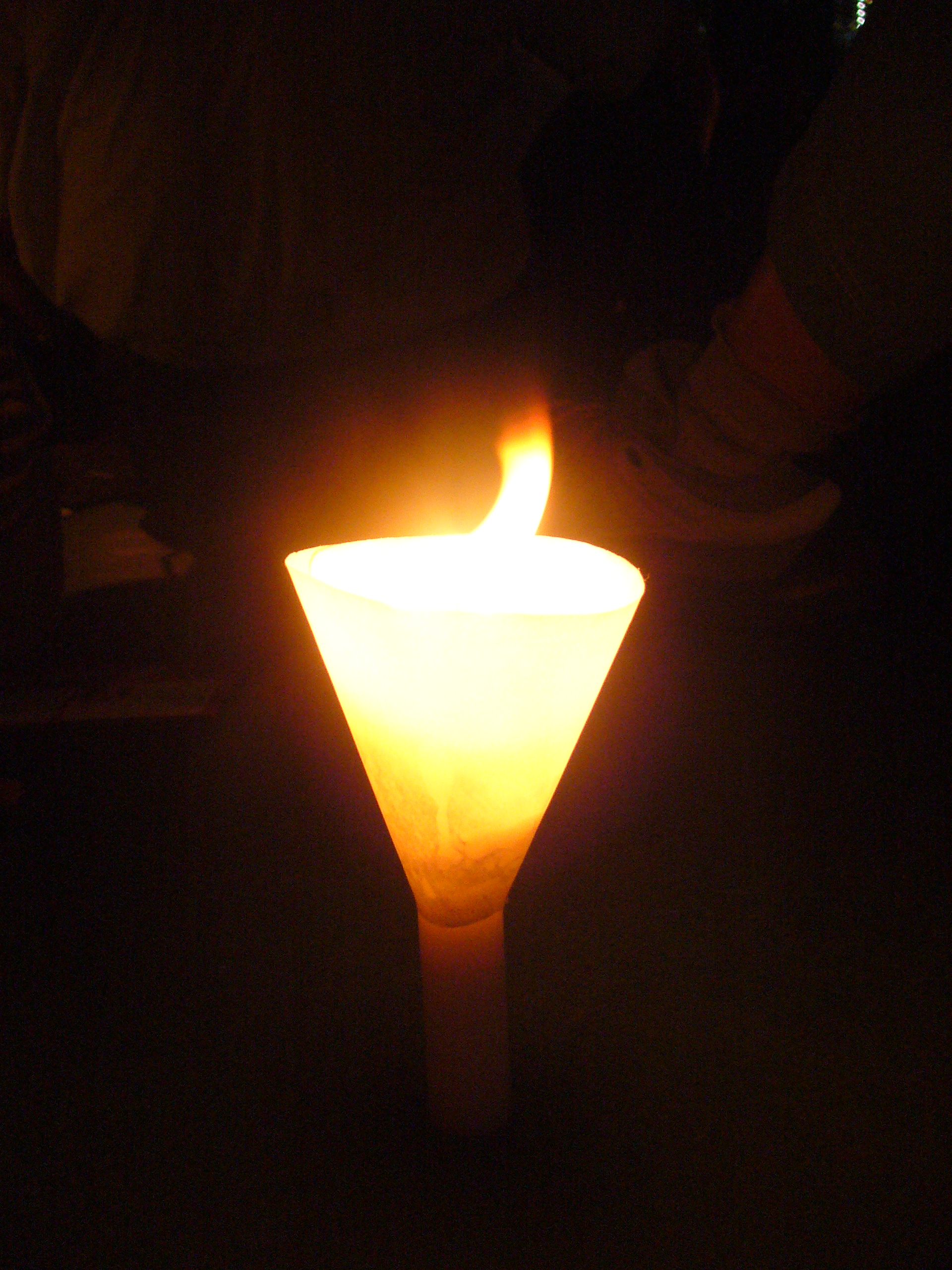 Candlelight Vigil in Hong Kong for the 18th Anniversary of the June 4 Massacre